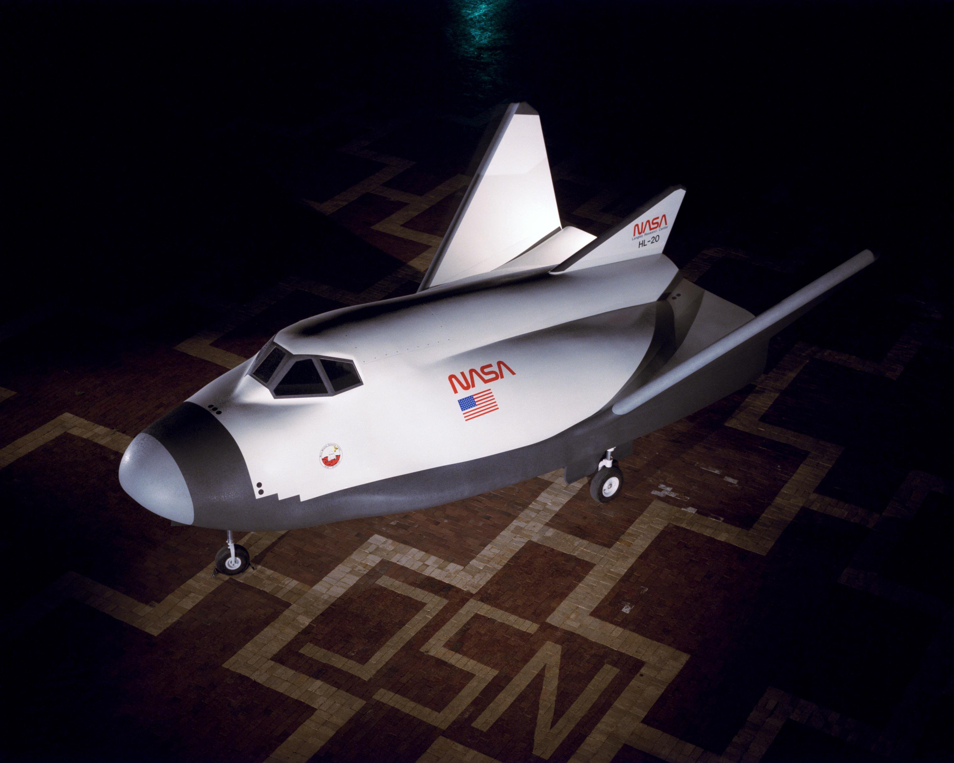 The HL-20 experimental aircraft mock-up. Photograph published in Winds of Change, 75th Anniversary NASA publication (page 131), by James Schultz.